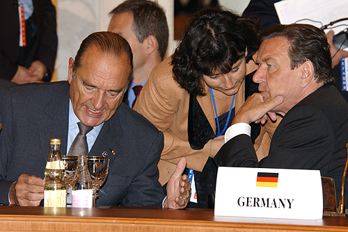 CONSTANTINE PALACE, STRELNA. German Chancellor Gerhard Schroeder and French President Jacques Chirac at a plenary meeting of the Russia - EU Summit.